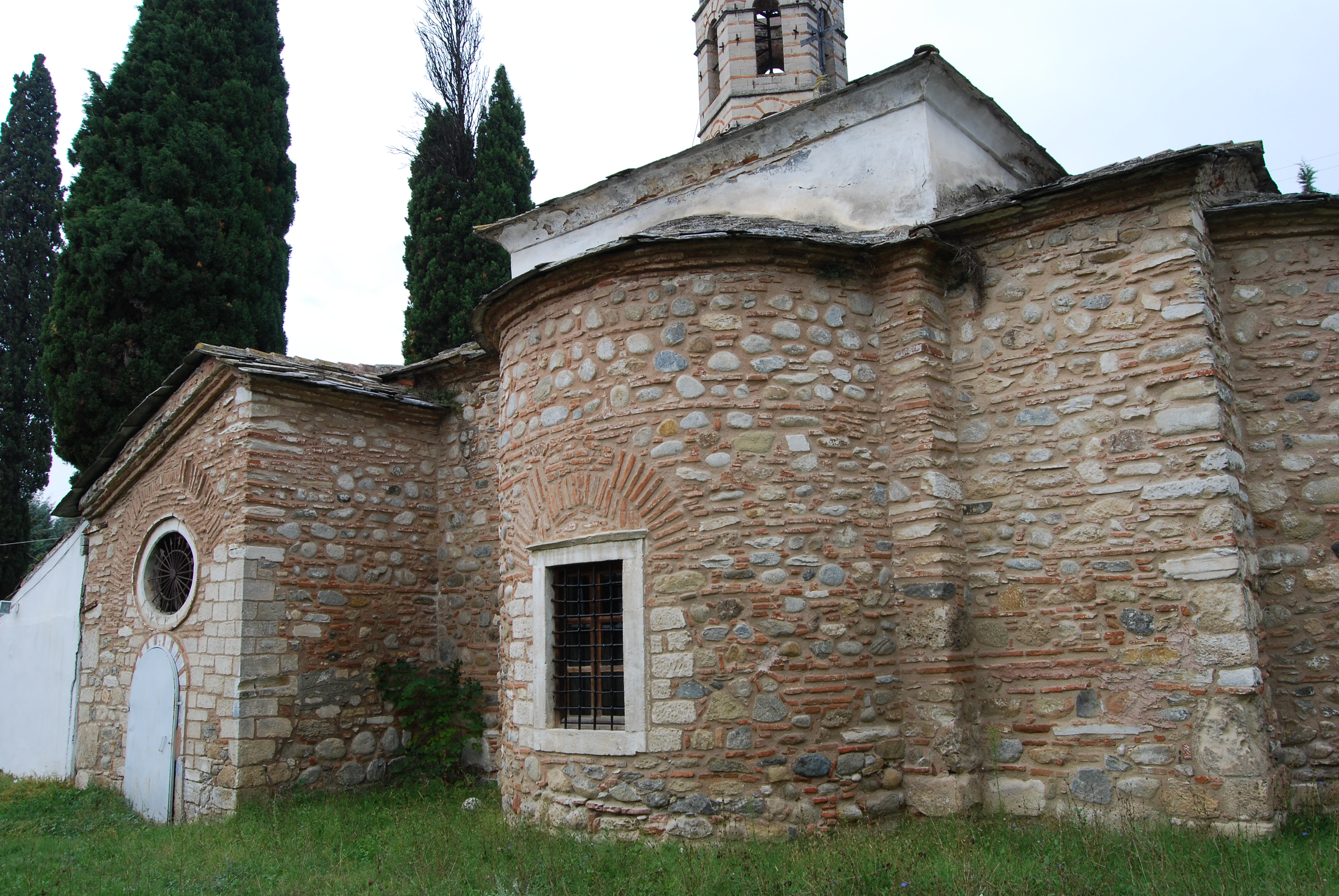 Saint George Kryoneritis Church